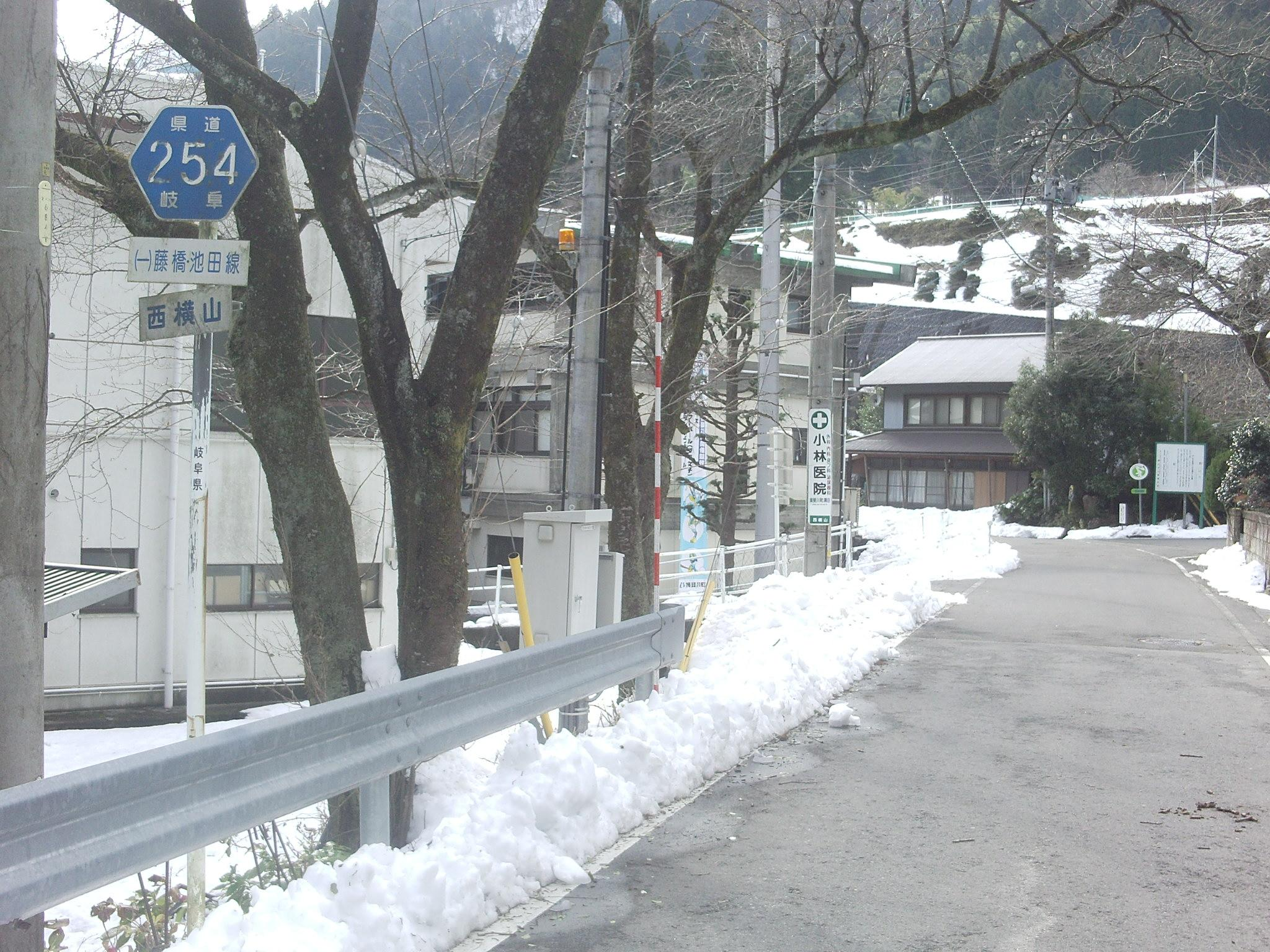 Gifu prefectural road No.254 in Nishiyokoyama, Ibigawa town, Ibi-gun, Gifu.